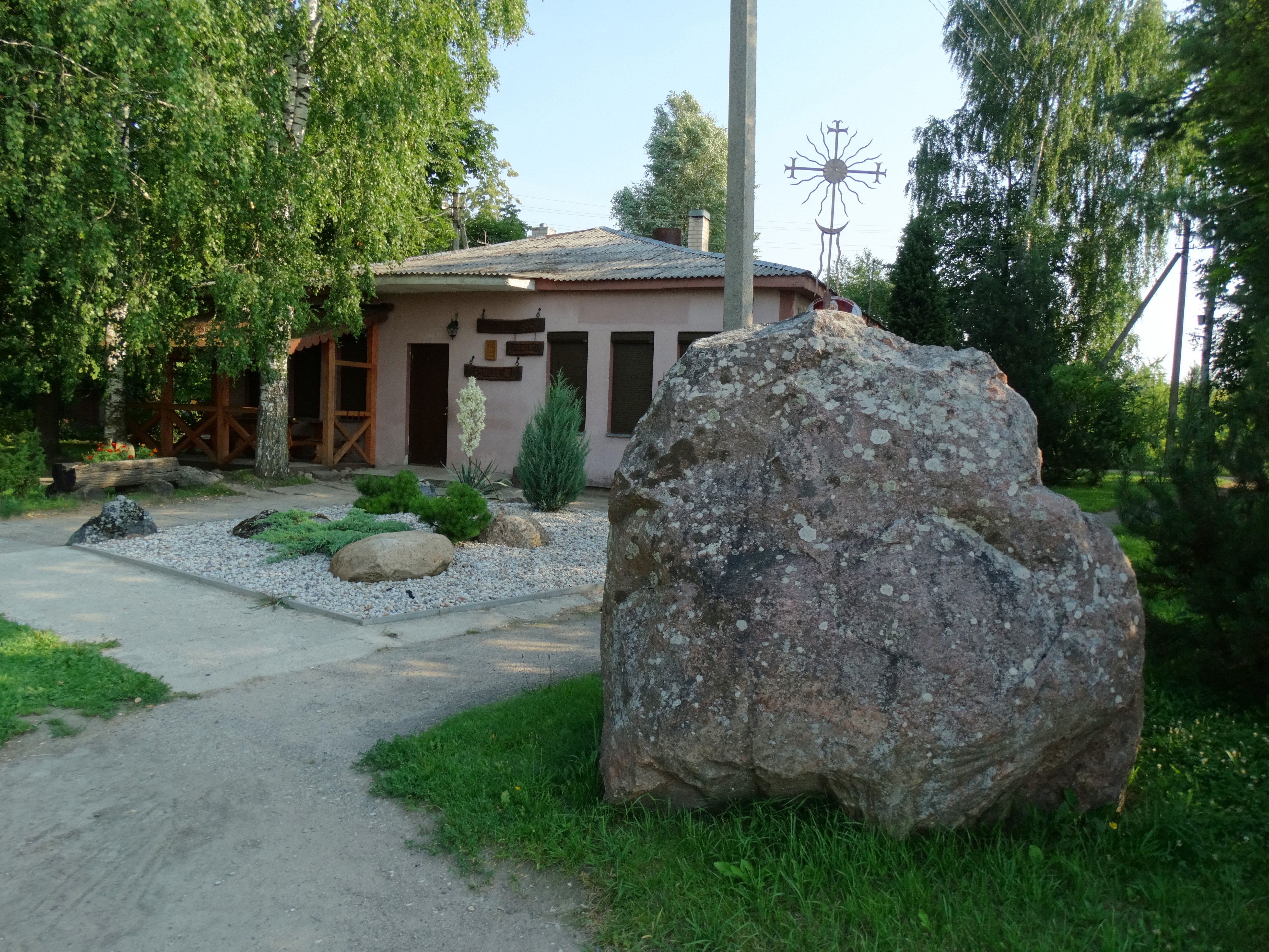 Jurdaičiai, Joniškis District, Lithuania